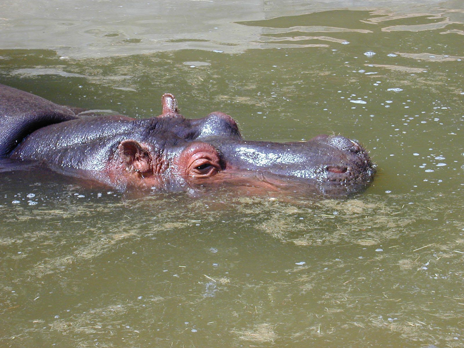 Hippopotamus (Hippopotamus amphibius) at the Touroparc zoological garden in Romanèche-Thorins (France).